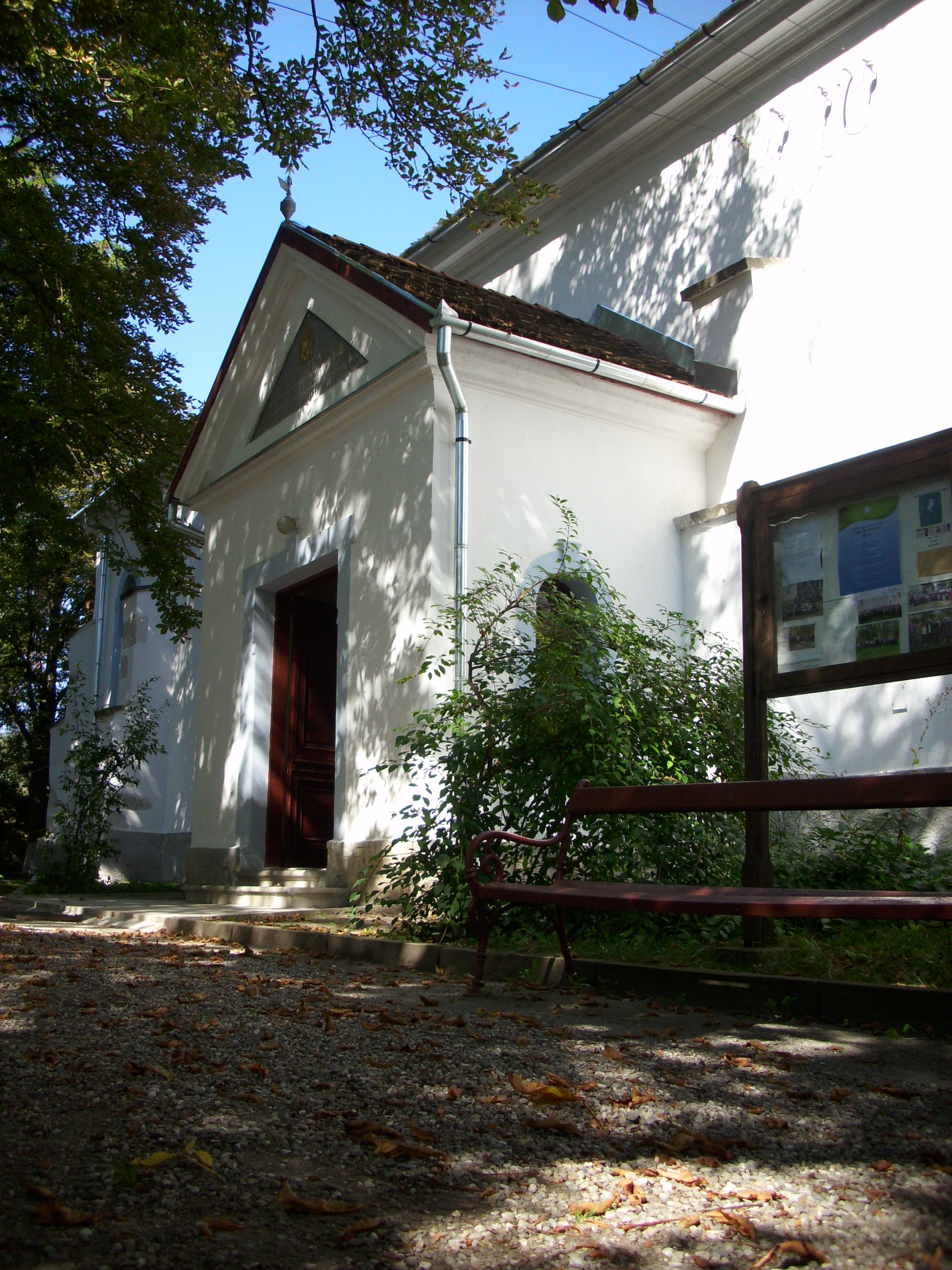 It's a reformatic church which was built in between the XIV. century and the XVI. century. 01